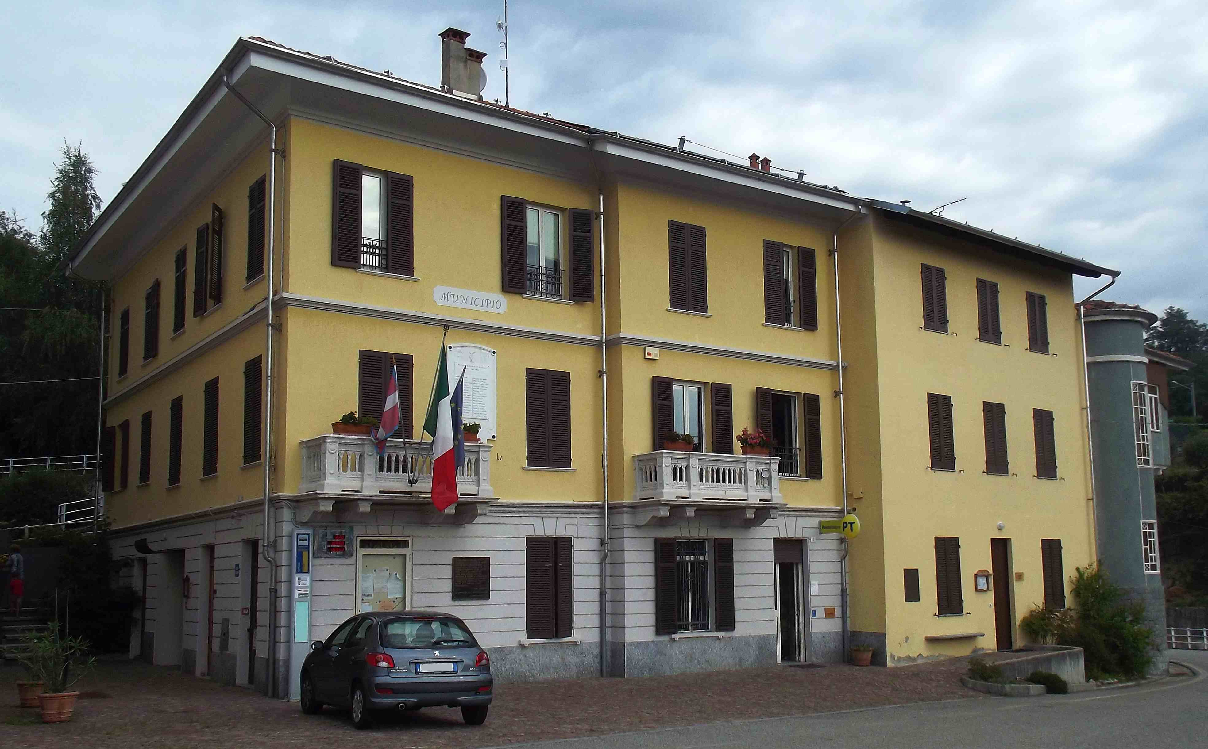 Soprana (BI, Italy): town hall